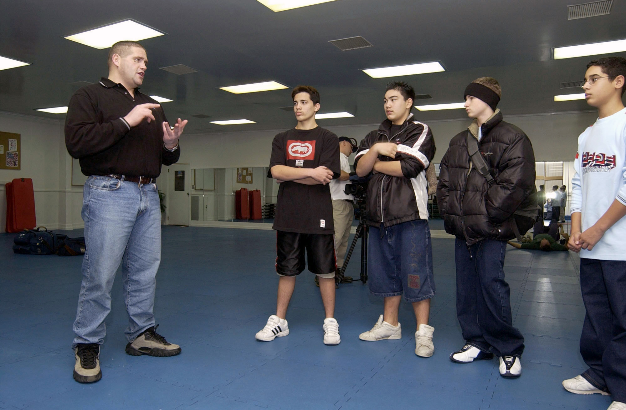 Naval Air Facility, Misawa Japan (Nov. 30, 2002) -- Rulon Gardner, the 2000 Olympic Gold Medallist in Greco Roman Wrestling, gives expert advice to the Edgren High School wrestling team during his visit to Misawa Air Base. Gardner is part of the “America's Golden Heroes” Holiday Tour 2002. U.S. Navy Photo by Photographer’s Mate 2nd Class John Collins. (RELEASED)